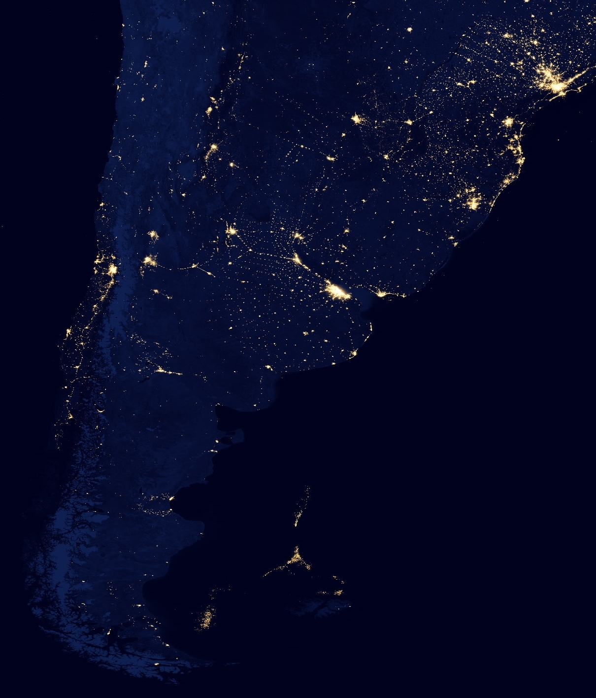 Southern Cone, South America, seen from space at night